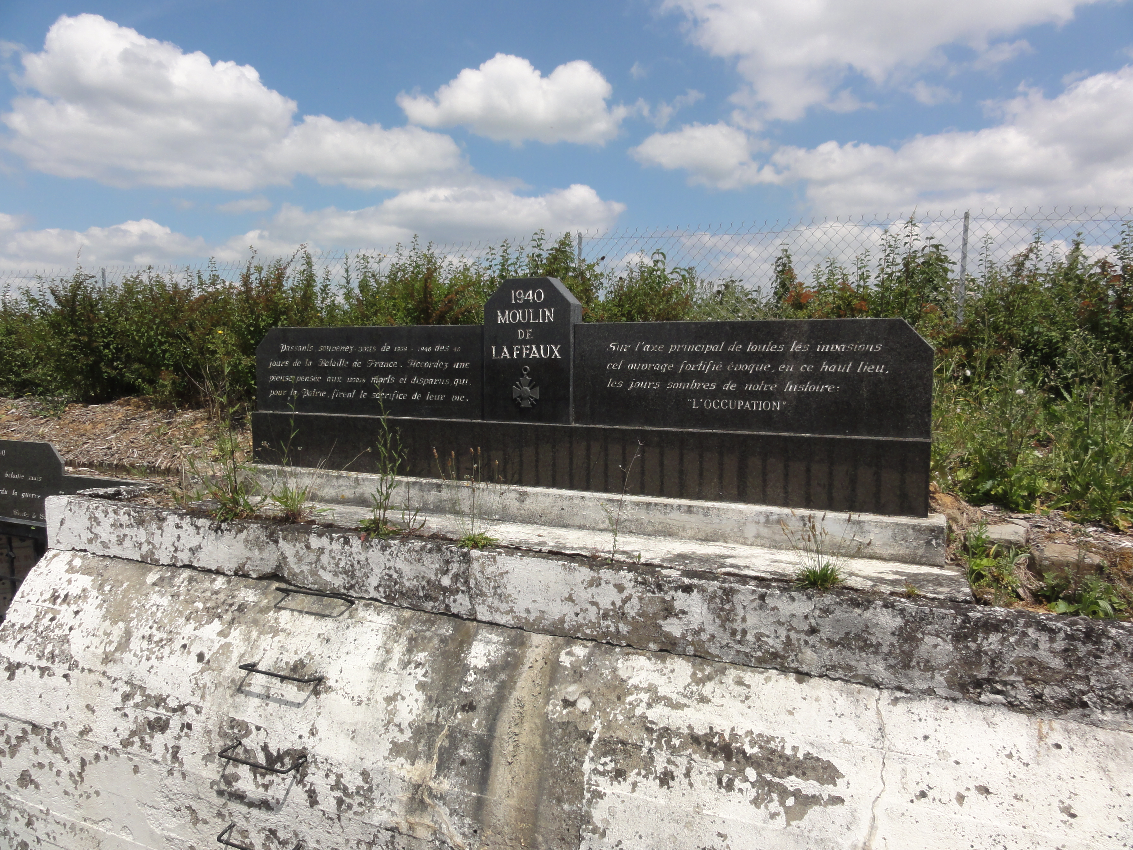 Laffaux (Aisne) Mémorial du Moulin de Laffaux